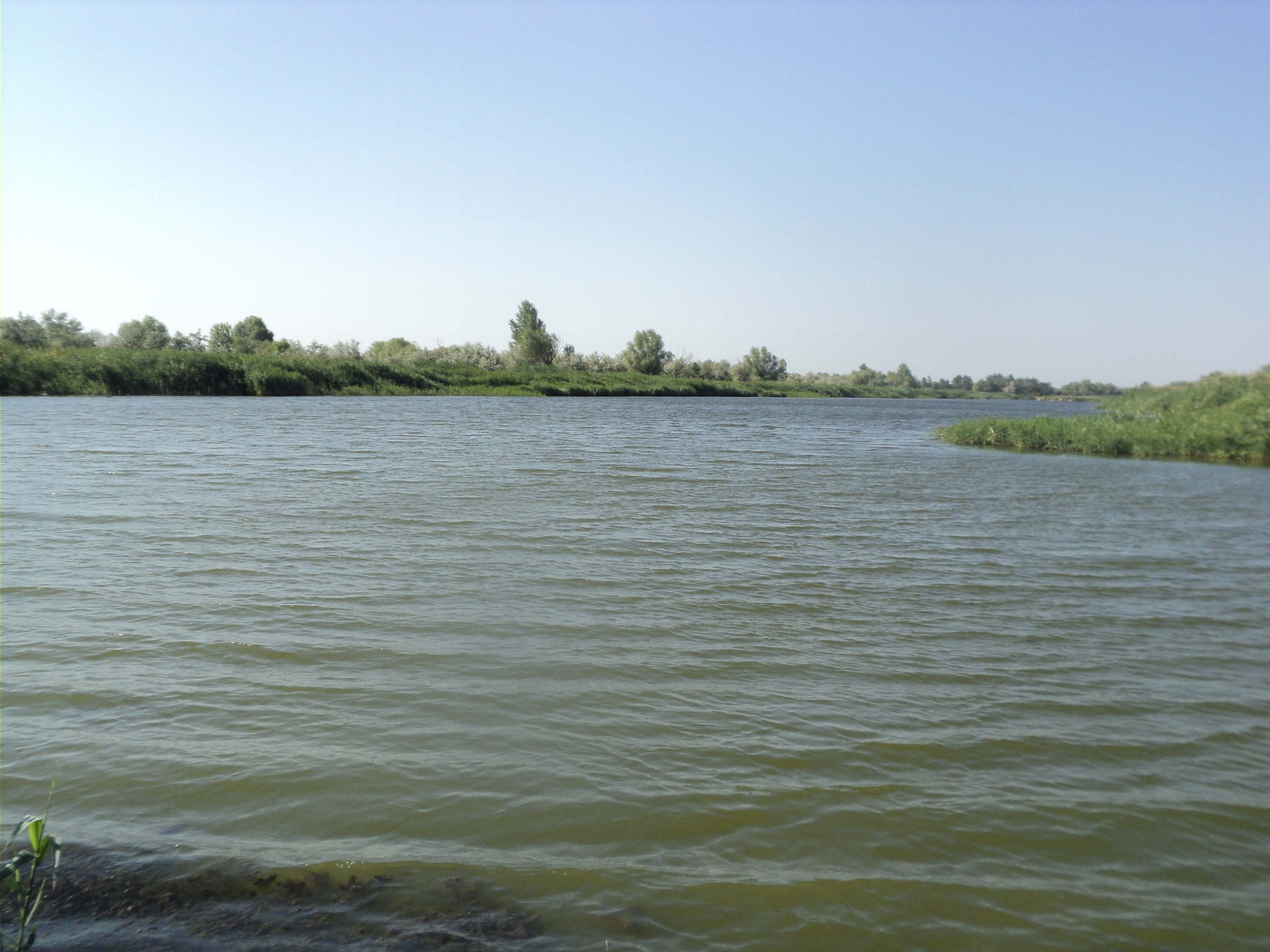 Bazavluk. View from the dam on the Dnieper.